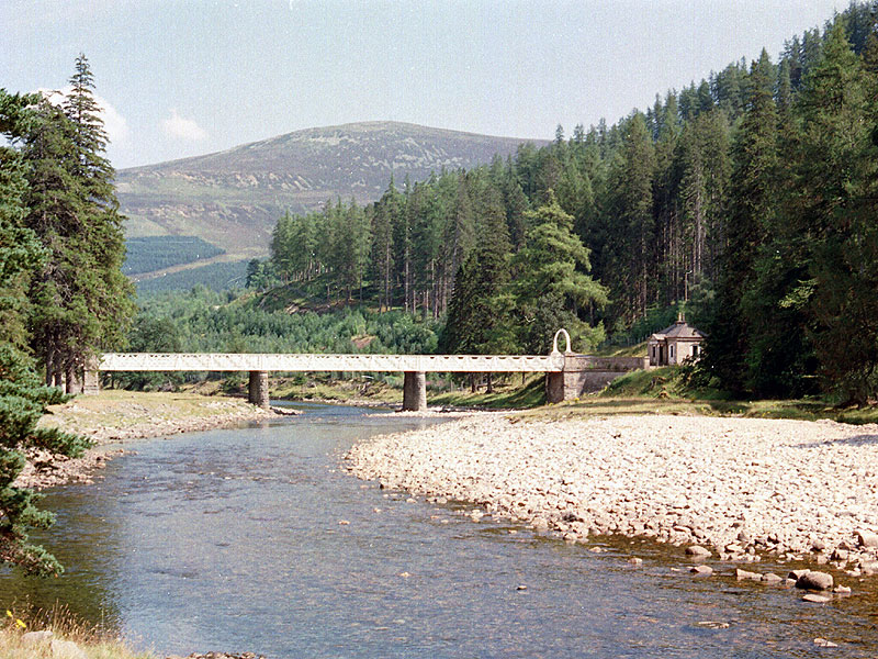 The Victoria Bridge on Mar Lodge Estate looking roughly East showing the Gate Lodge on the South bank of the river.